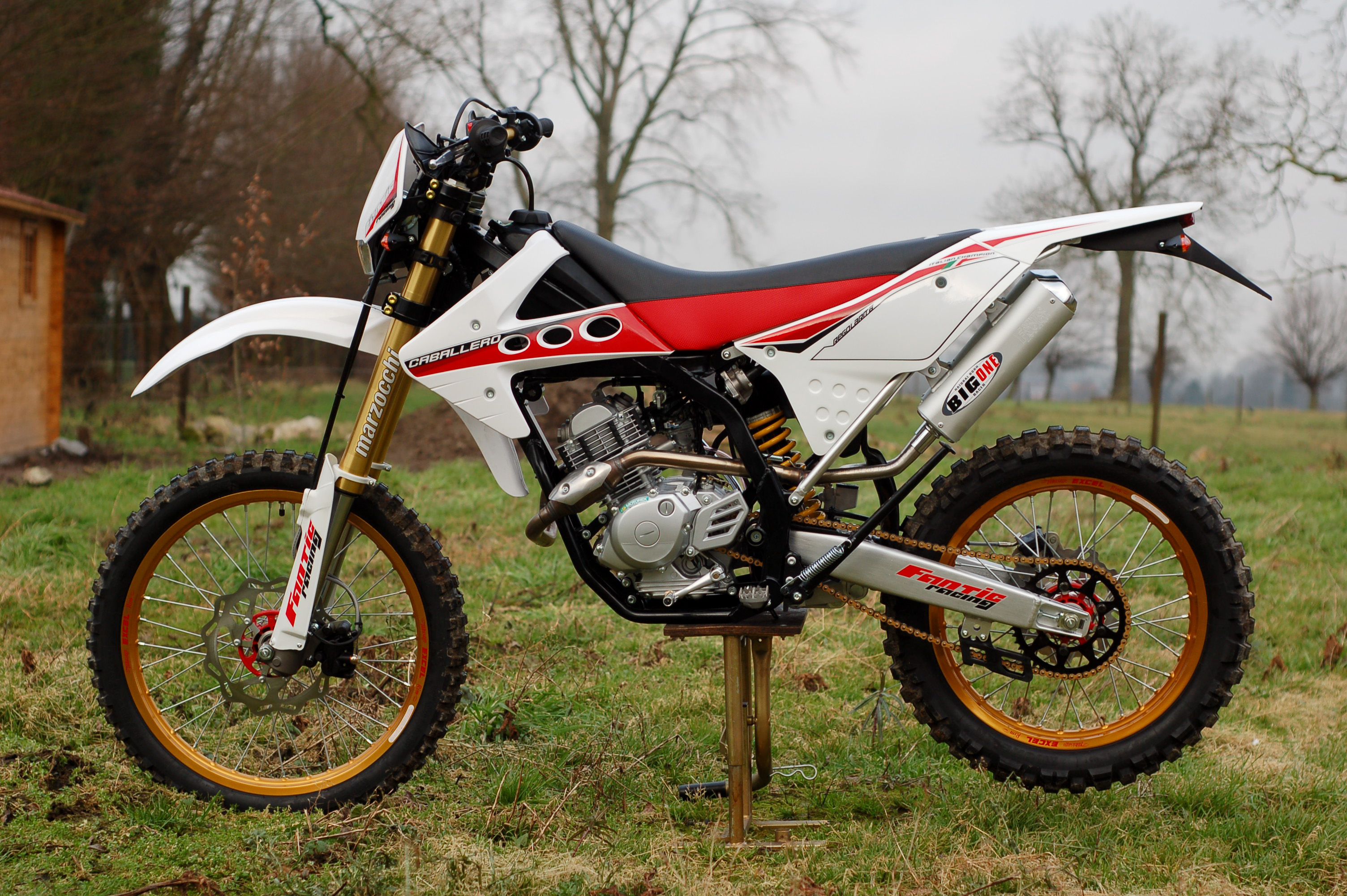 Fantic Caballero Regolarità 125 Aircooled 2009